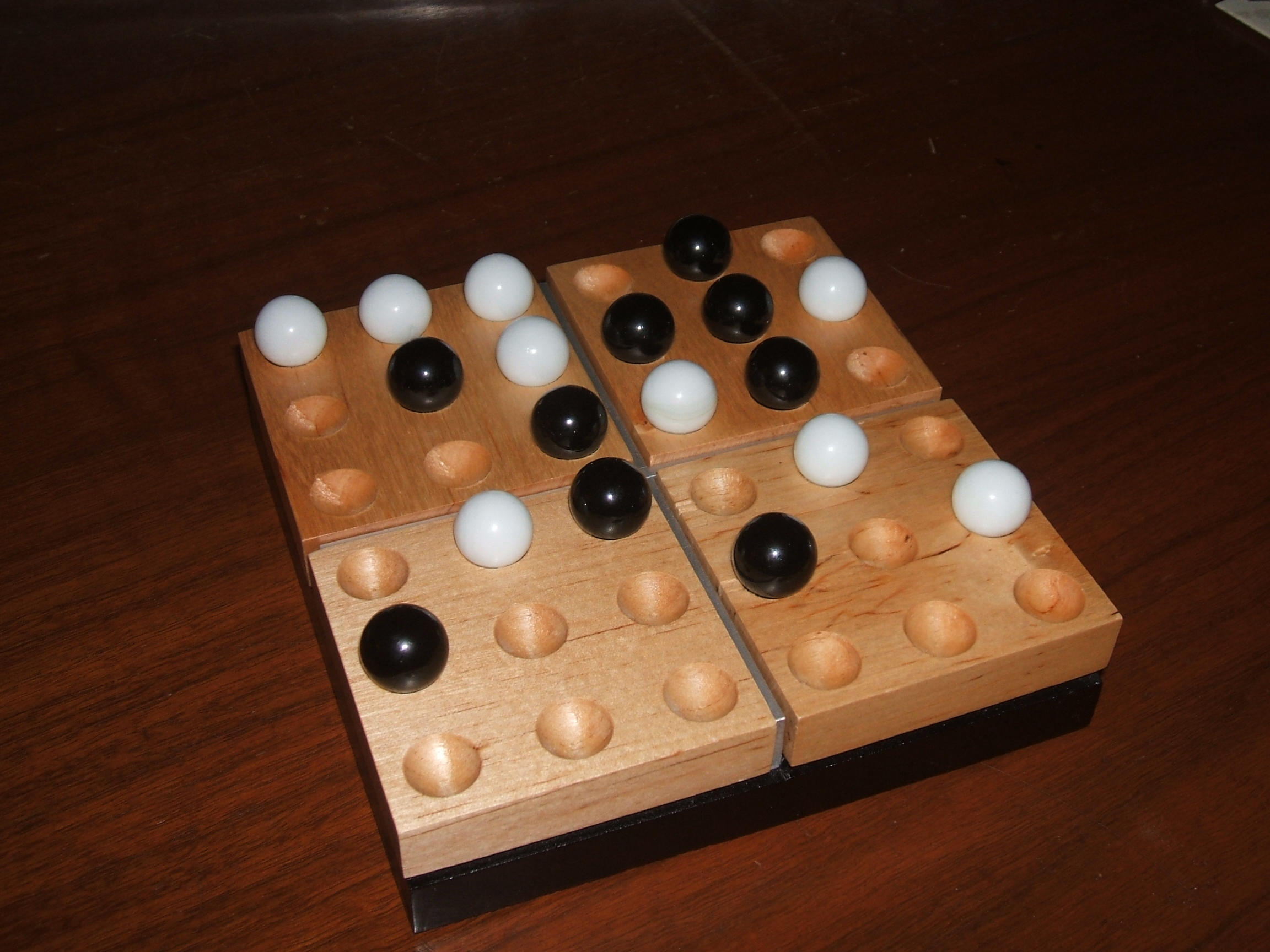 A picture depicting the winning position for white in a game of pentago.